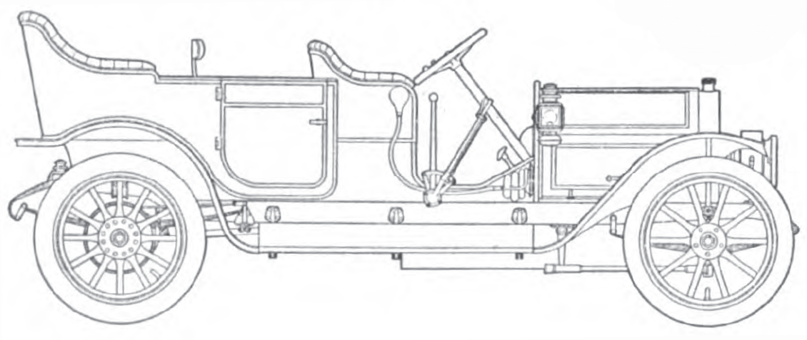 This is a sketch of the then-upcoming Great Southern Model 50 automobile, manufactured by the Great Southern Automobile Company from Birmingham, AL.